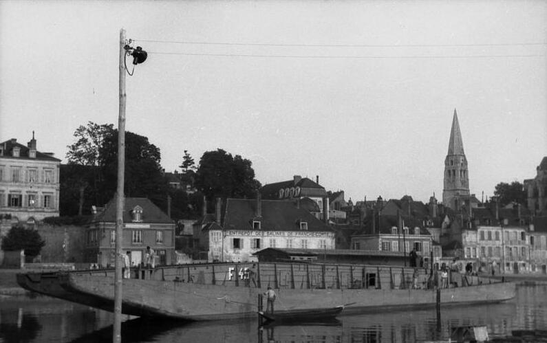 Information added by Wikimedia users.